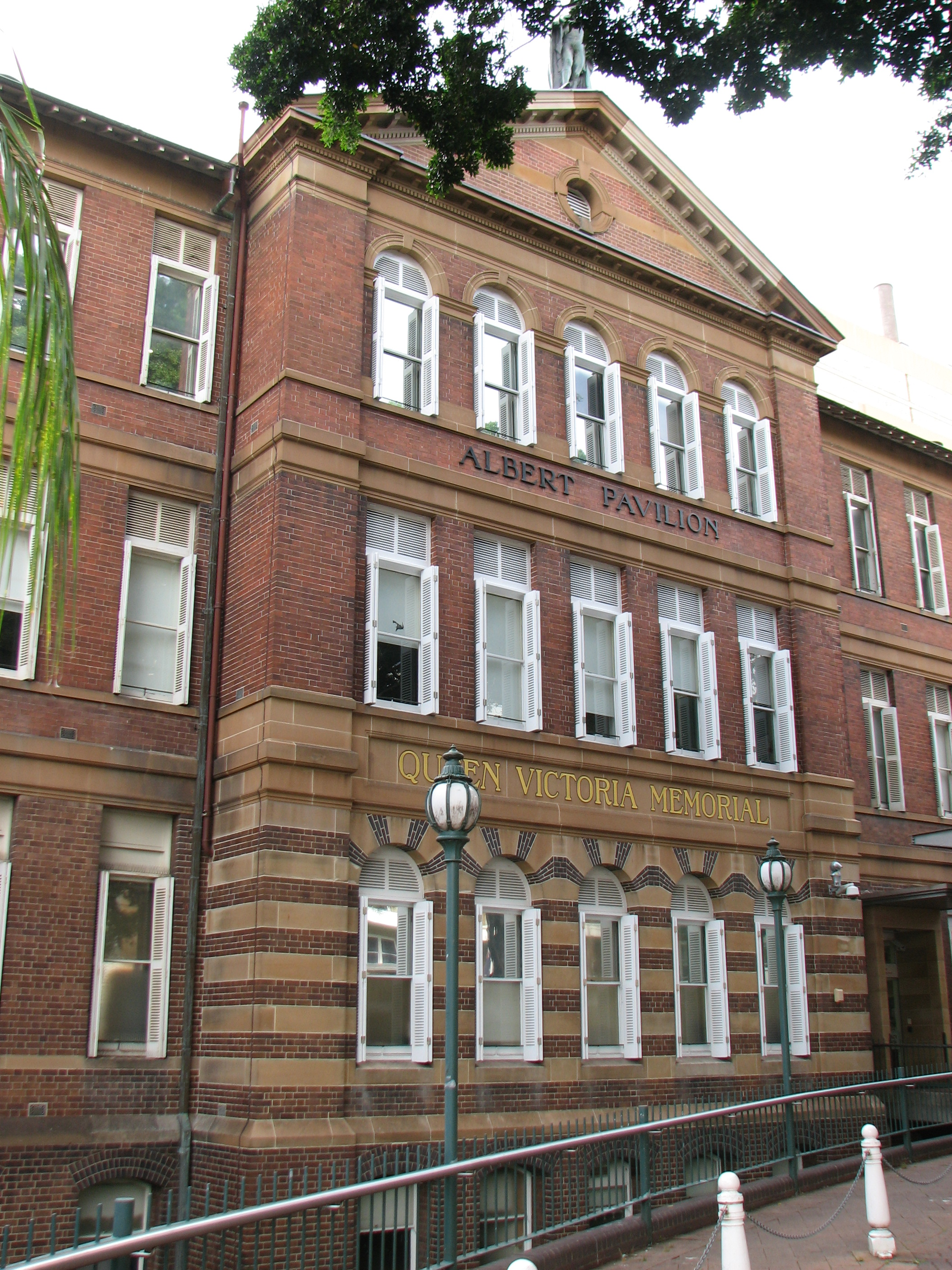 The Albert and Victoria Pavillons flank the Main Administration Building. These buildings are on the NSW Heritage Register